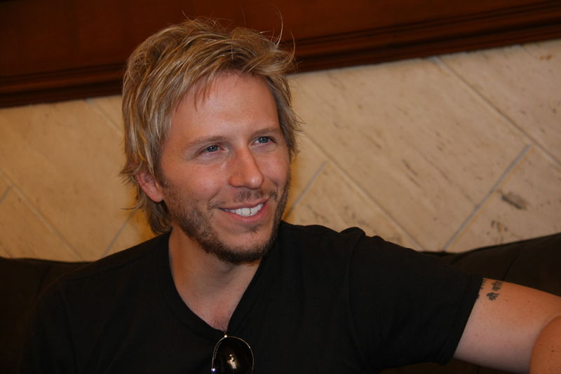 aa